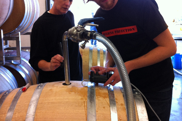 Wine being transferred to barrel after racking